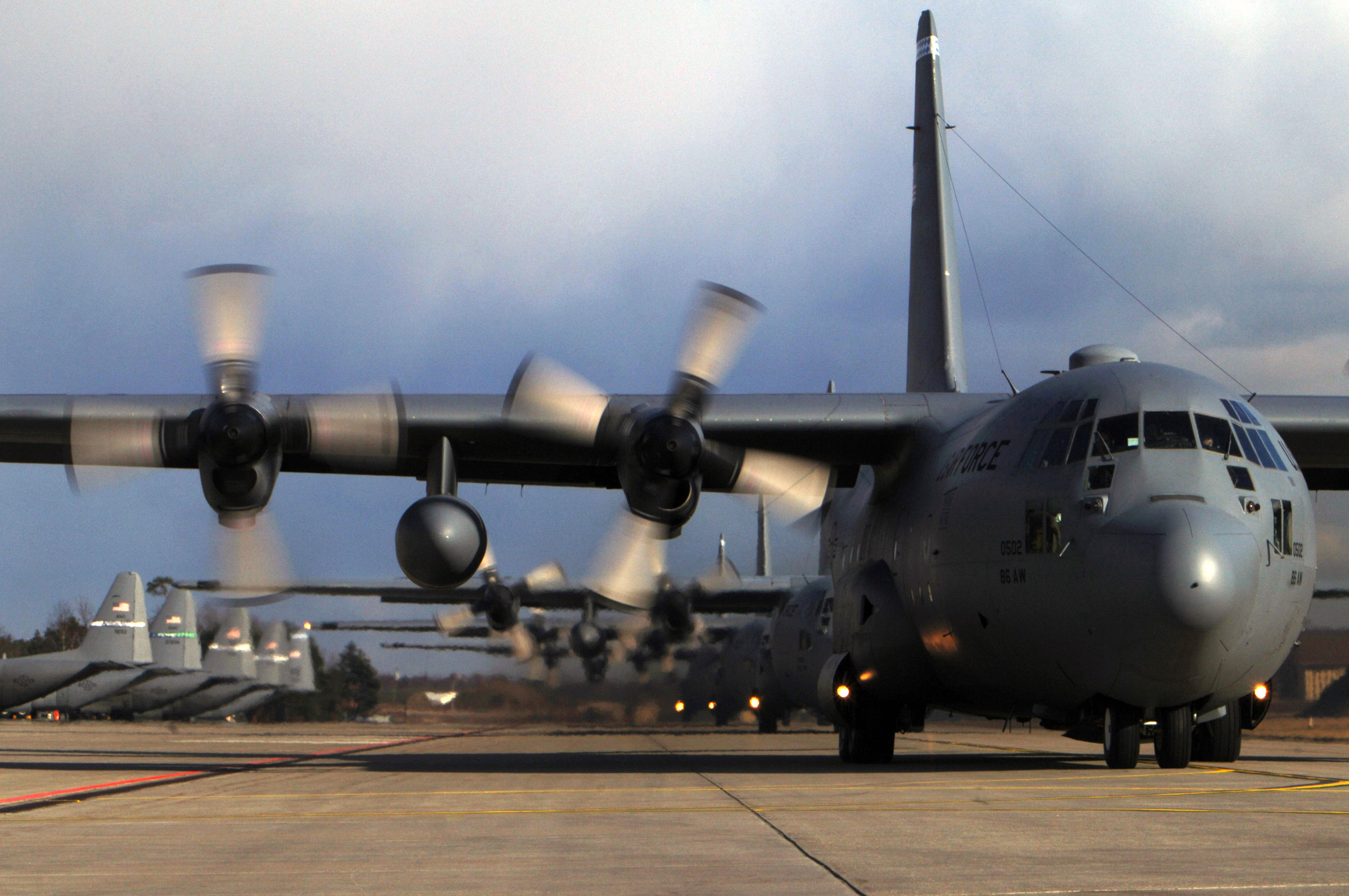 A line of C-130 Hercules aircraft prepare to depart Ramstein Air Base, Germany, March 5 for mass tactical training. The training allows 86th Airlift Wing aircrews to maintain proficiency in large formation flying and airdrop operations.